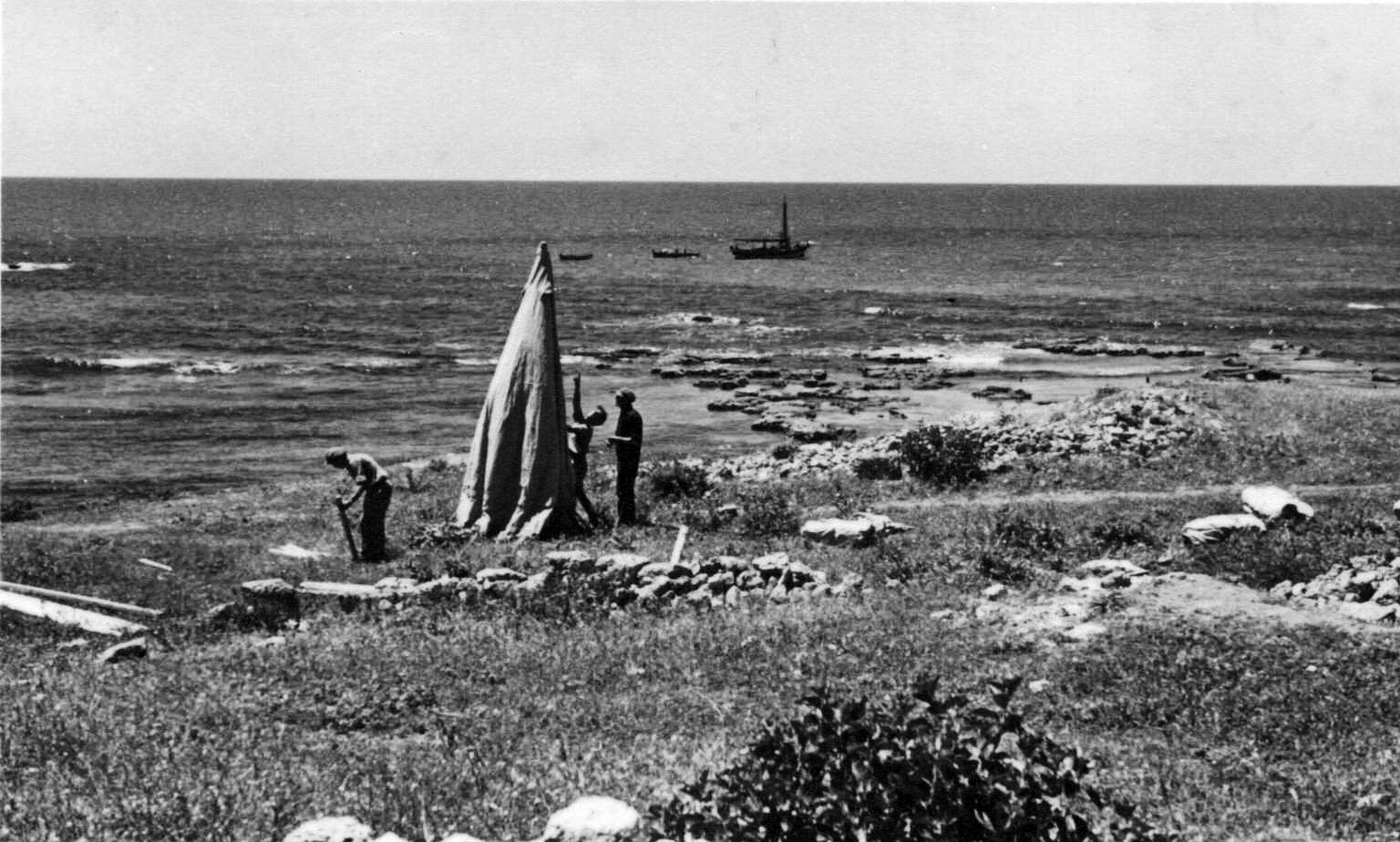 Kibbutz Sdot-yam - early days, Settlements in Israel